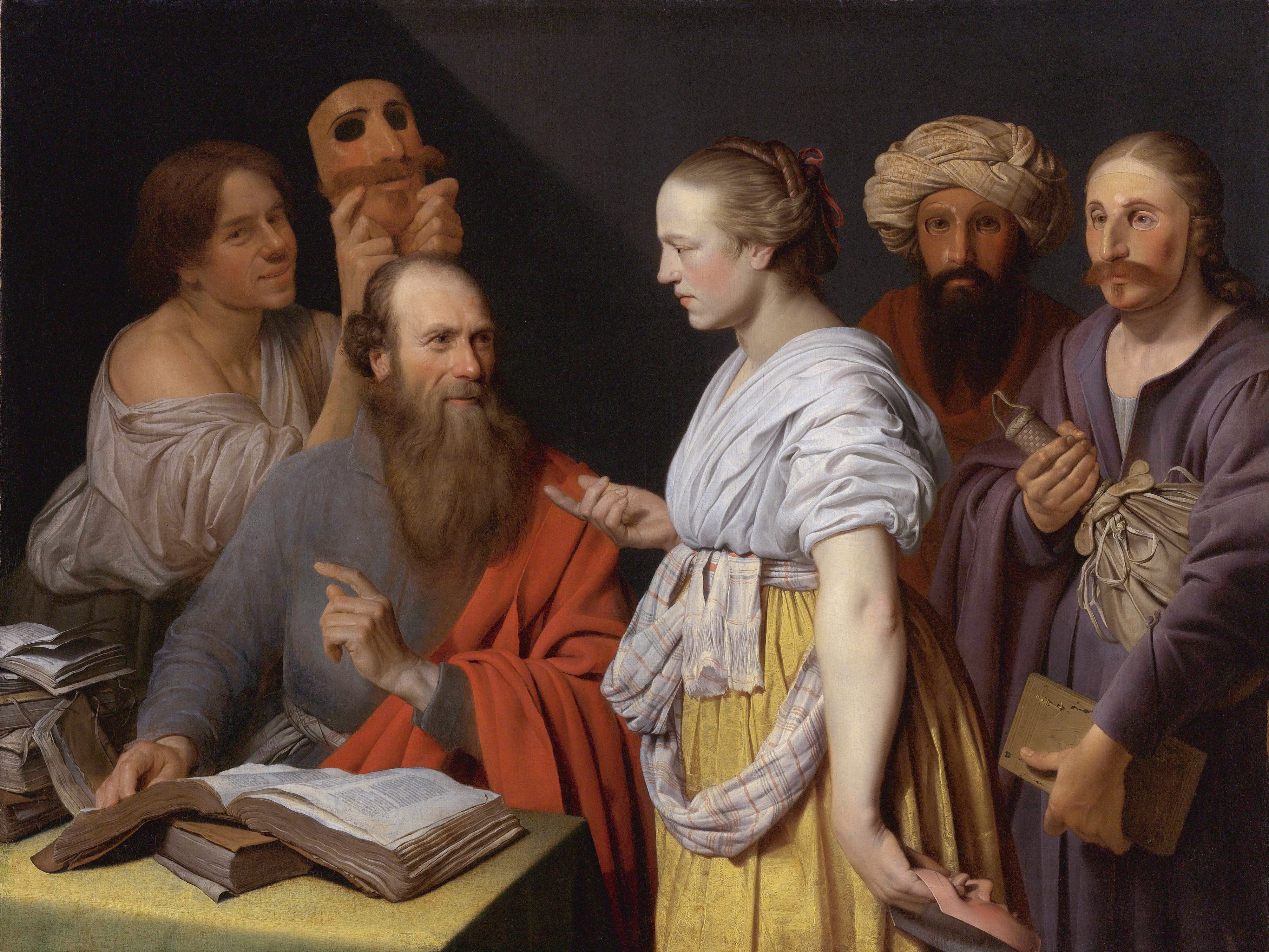 Possibly an allegory[1]